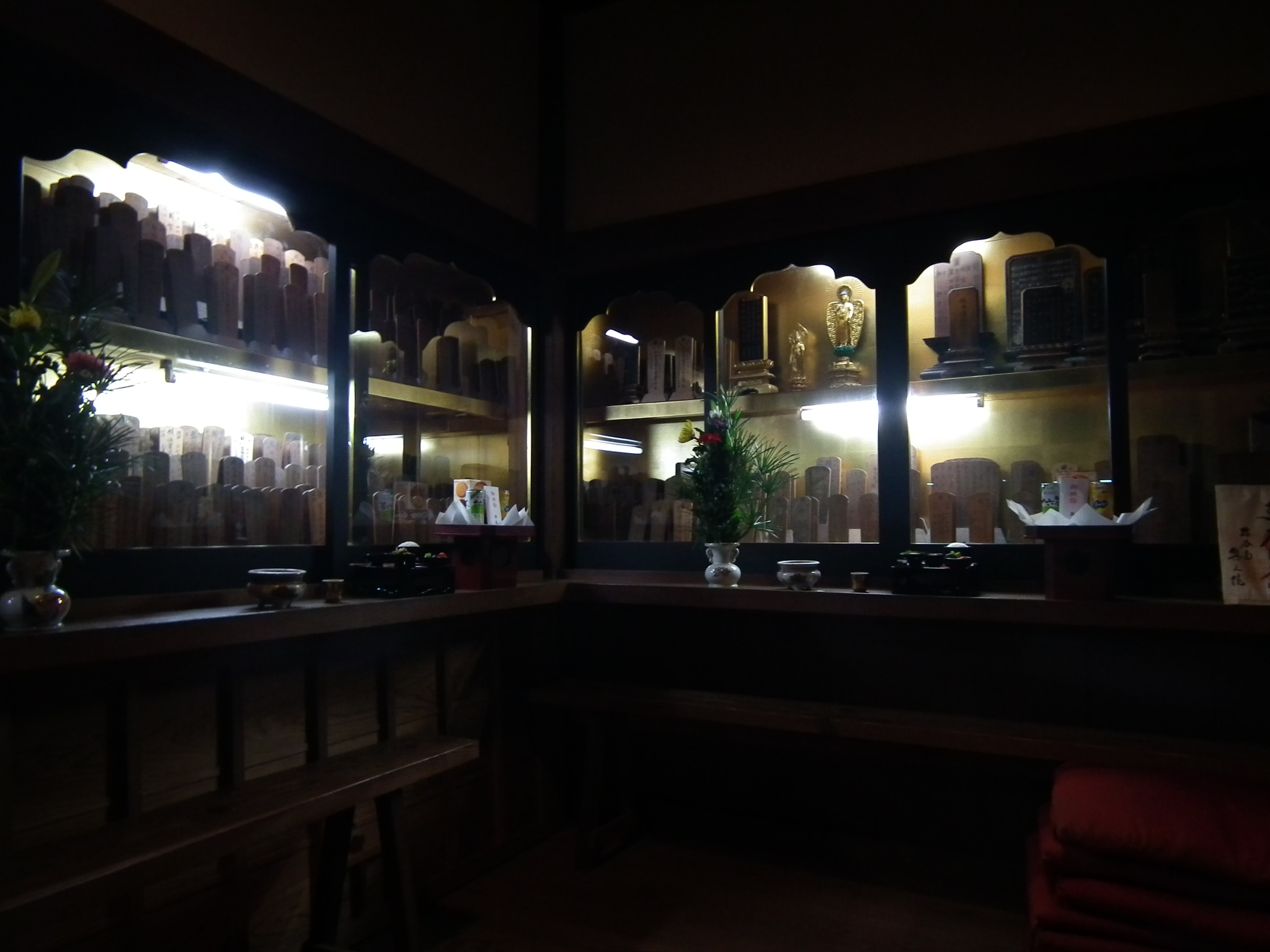 Puja Hall at Iyadaniji Temple in Kagawa, Japan